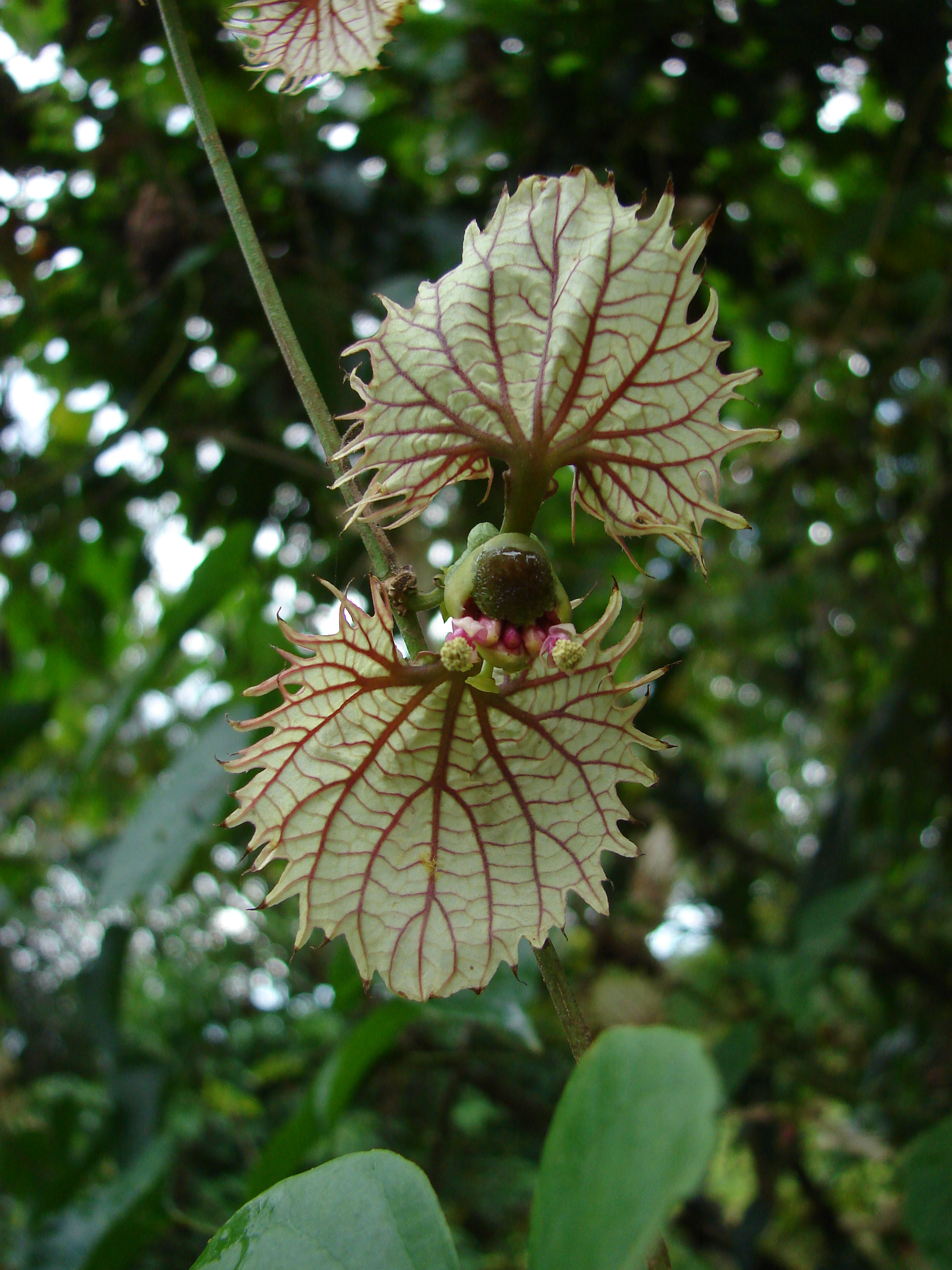 Blossom of Dalechampia dioscoreifolia from Costa Rica